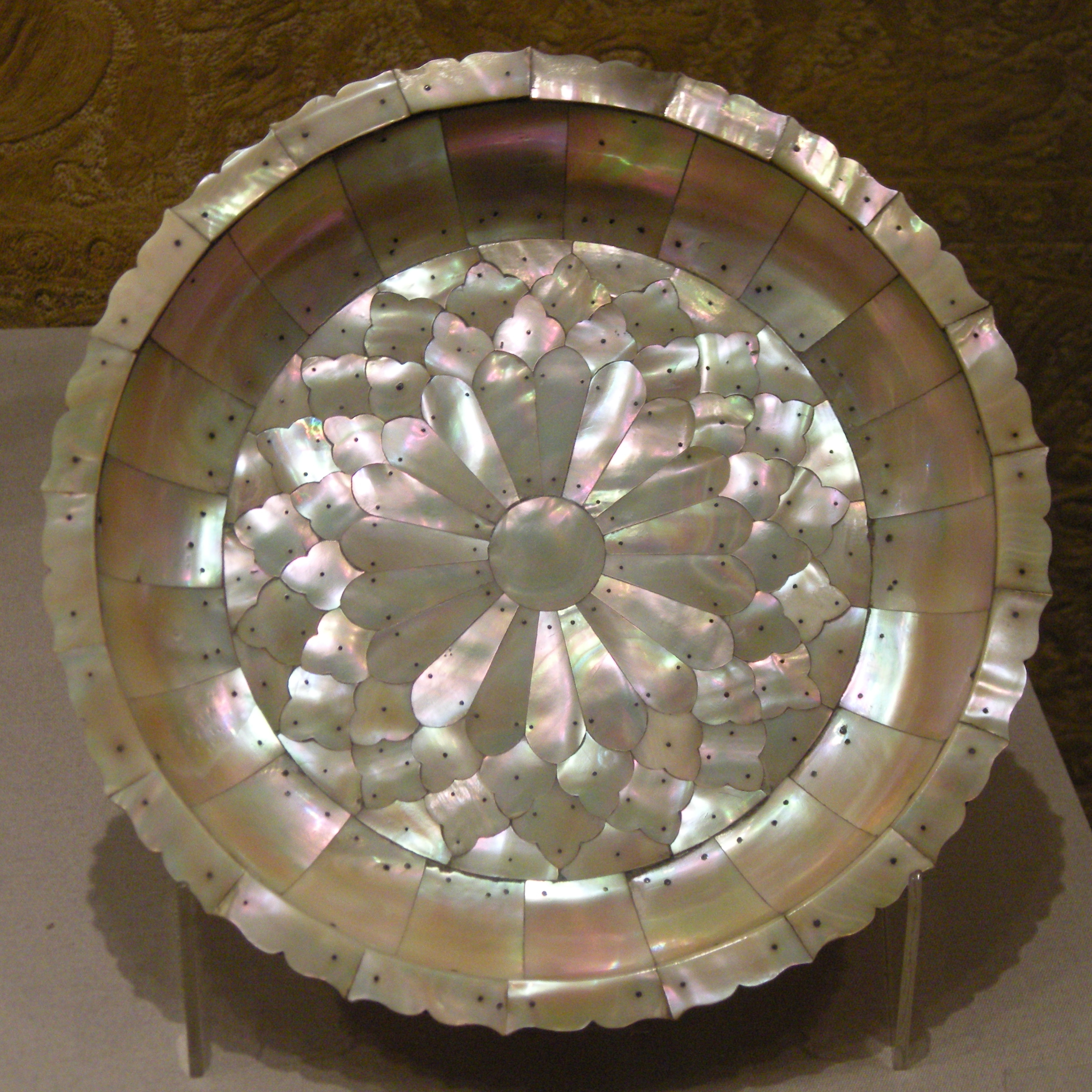 Basin Mother-of-pearl, with metal pins Gujarat 16th or early 17th century 4282.1857 Articles fashioned with mother-of-pearl plaques were made in Gujarat for local use as well as for export to foreign markets. In Europe, the rarity of the material and the distinctive craftsmanship of such objects made them much sought after for Wunderkammern or cabinets of curiosities. They featured in Renaissance princely collections as well as in church treasuries, and were frequently embellished with rich mounts. Mother-of-pearl basins such as these are often accompanied by matching ewers based on contemporary European silver models. Wikipedia Loves Art at the Victoria and Albert Museum This photo of item # 4282-1857 at the Victoria and Albert Museum was contributed under the team name "VeronikaB" as part of the Wikipedia Loves Art project in February 2009. Victoria and Albert Museum The original photograph on Flickr was taken by VeronikaB—please add a comment to the original Flickr page whenever a use has been made on Wikipedia or another project. Project galleries on Flickr: this institution, this team